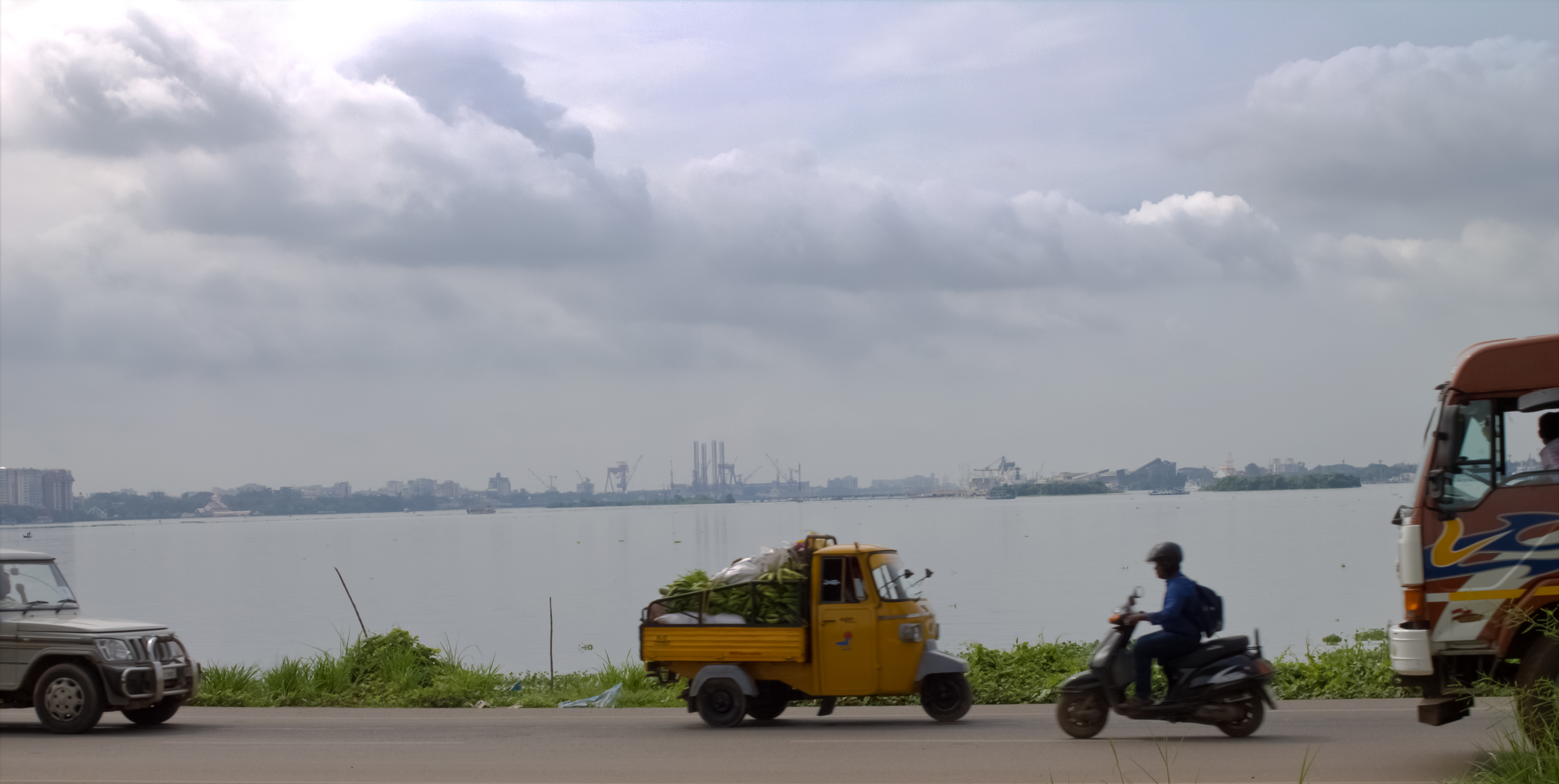 Vehicles on the Road